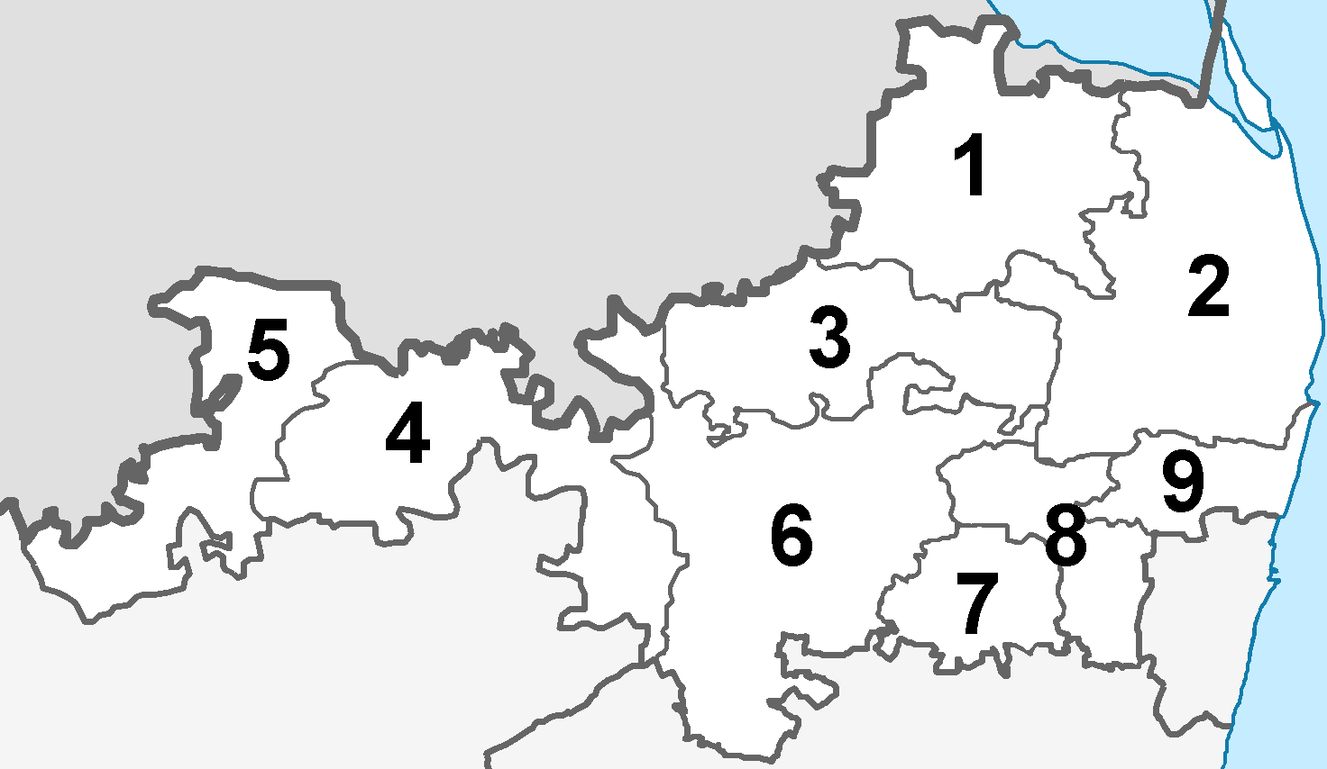 Taluks (sub-districts) of Tiruvallur district, Tamil Nadu, India (numbered) Gumminipoondi Ponneri Uthukkottai Tiruttani Pallipattu Tirvallur Poonamallee Ambattur Madhavaram